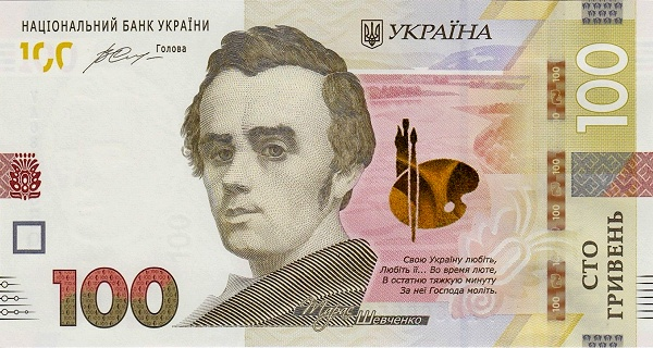 100 Ukrainian hryvnia in 2014 Obverse